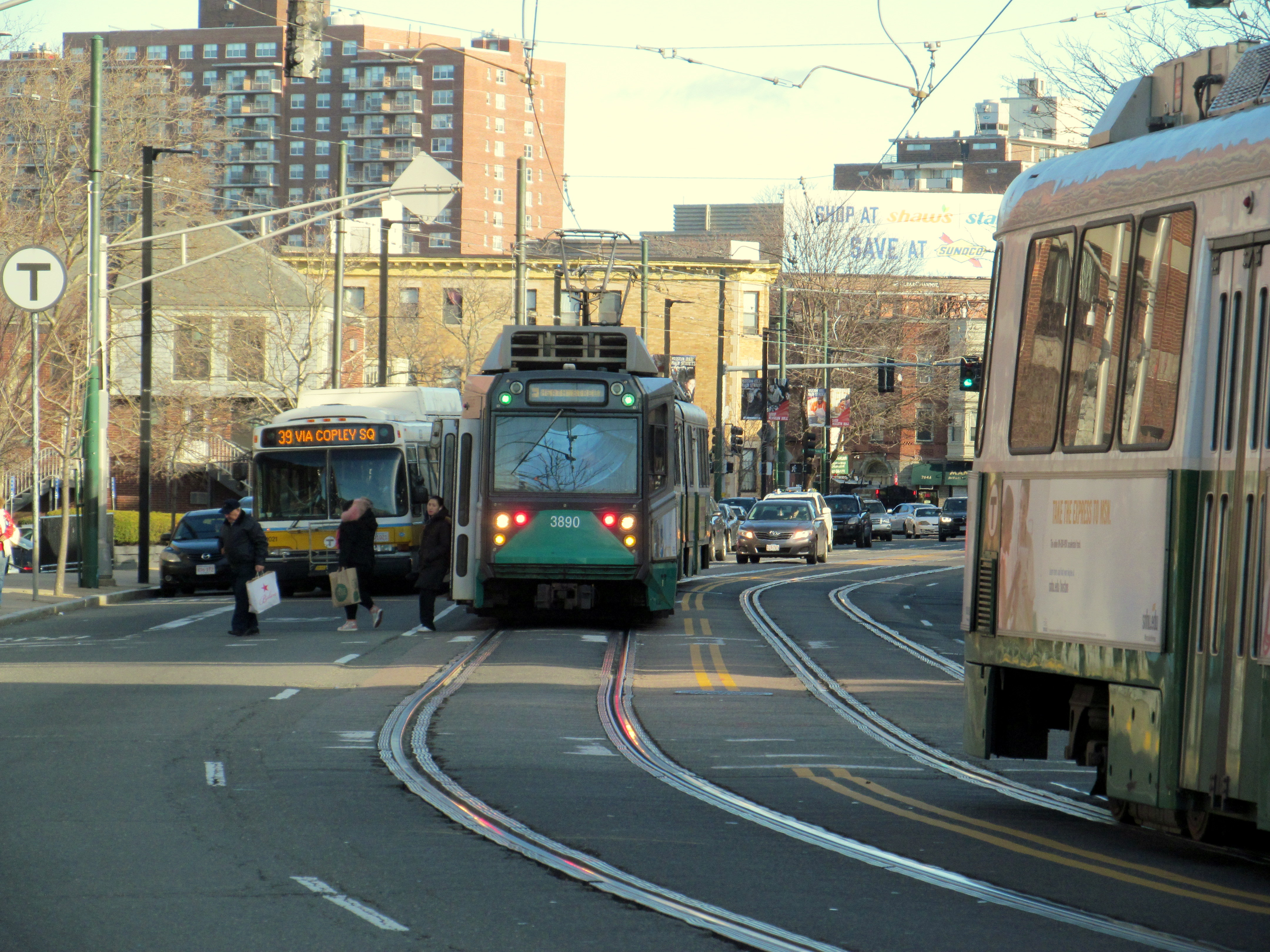 Two Green Line trains and an outbound route 39 bus at Mission Park stop in December 2016